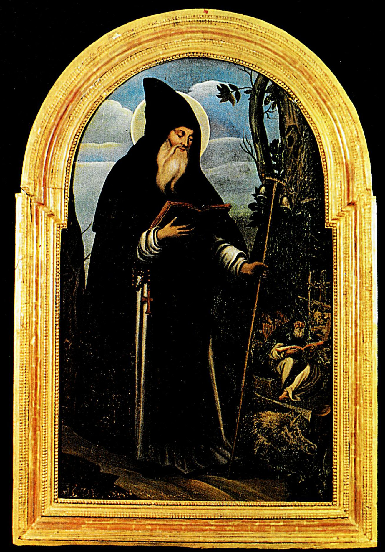 painting showing St. Anthony of Egypt, in church St. Antonius, Schuttertal, Baden-Württemberg, Germany